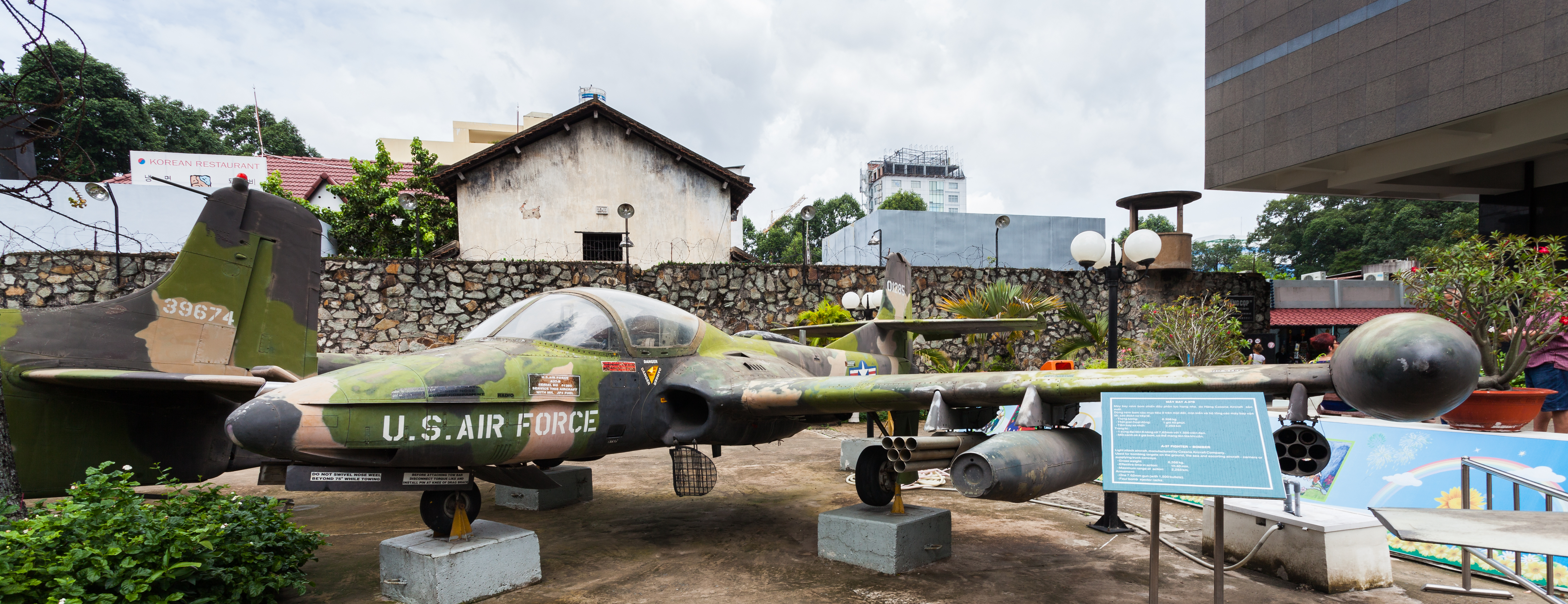 A-37 Bomber, War Remnants Museum of Vietnam War, Ho Chi Minh City, Vietnam